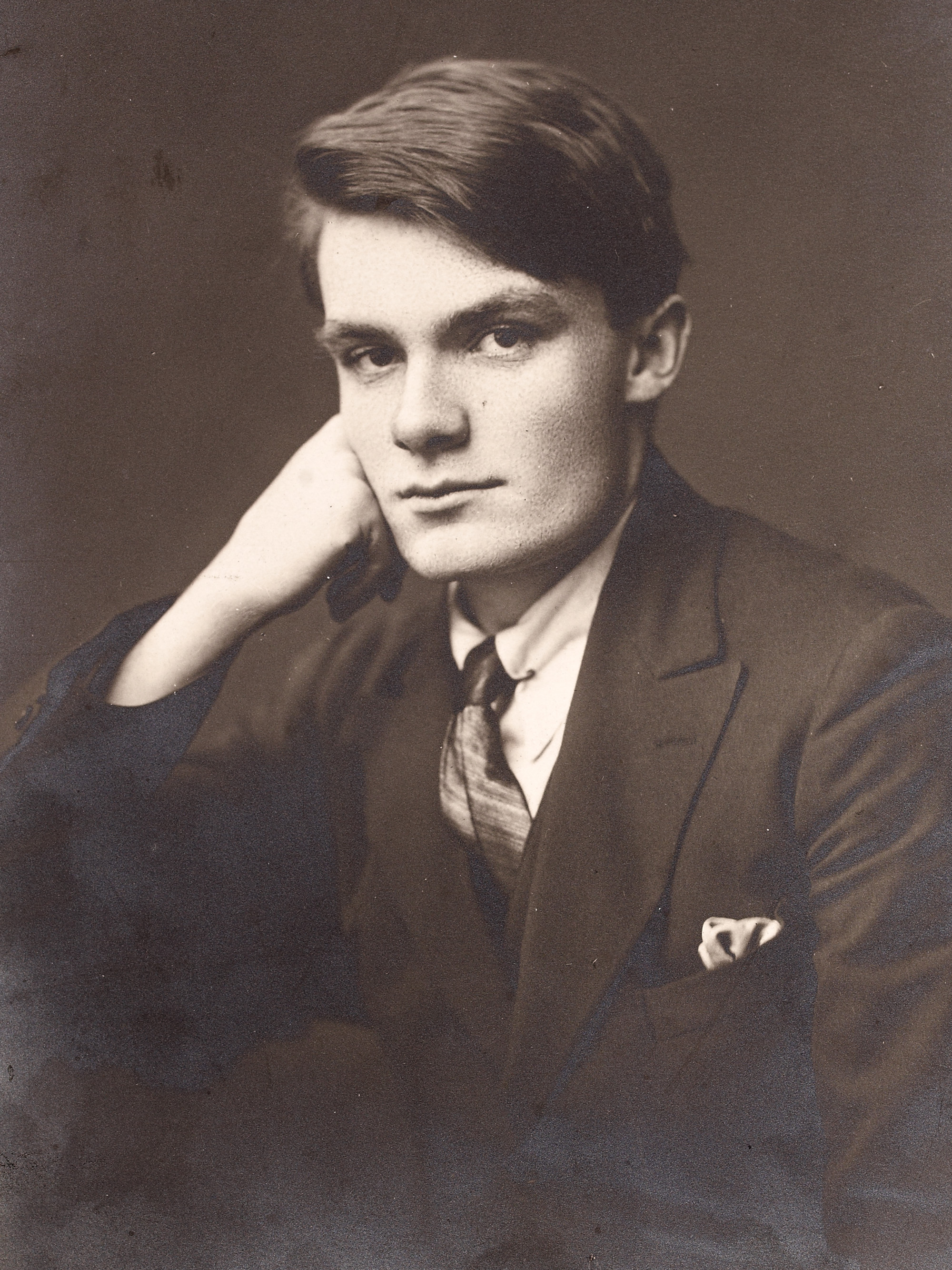 Head and shoulders, facing front portrait of Henry Francis Stuart, in suit and tie, leaning on elbow.